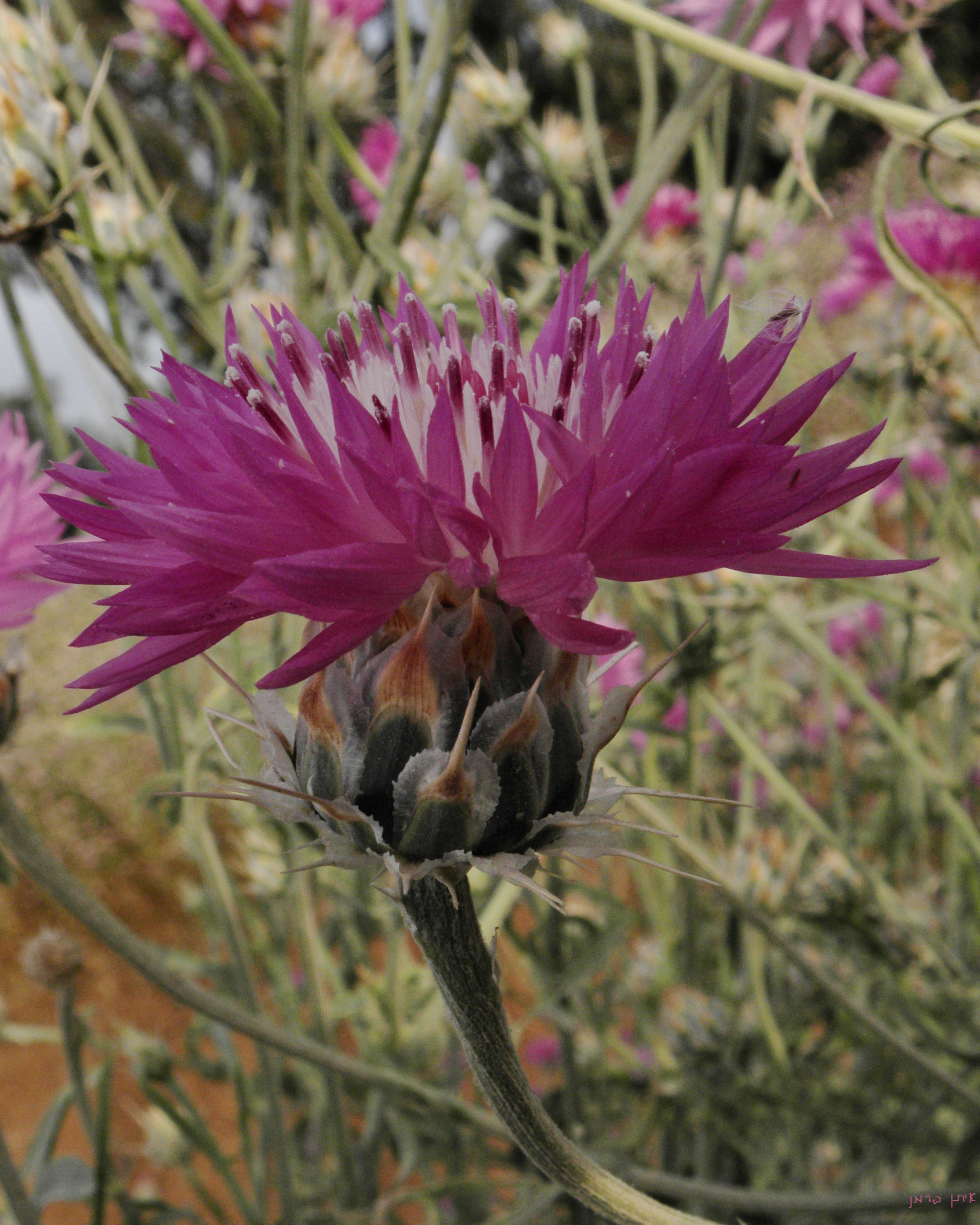 Blush Centaury-thistle - Centaurea crocodylium, Tel Aviv